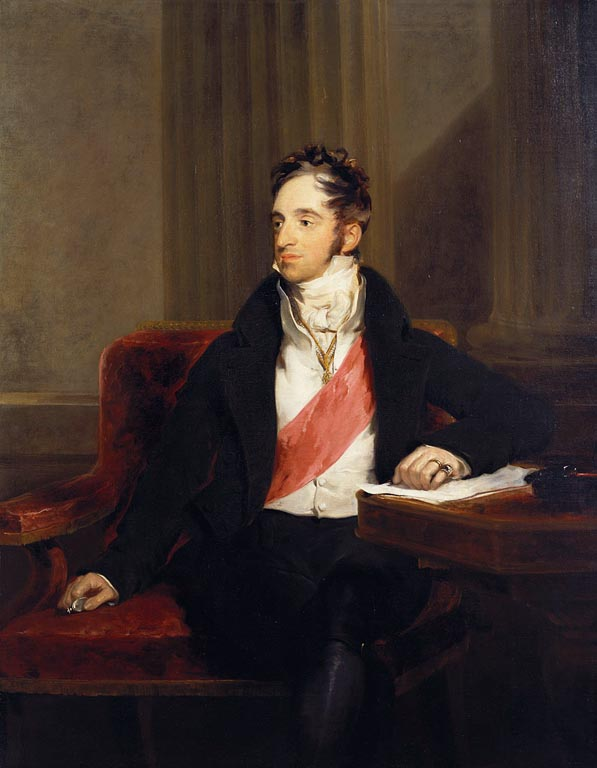 This portrait was commissioned by George IV at a cost of 300 guineas and was painted in in 1818 at Aix-la-Chapelle and Vienna, though it remained in Lawrence's studio until his death. The portrait seems to have always been intended for what became the 'Waterloo Chamber' and acknowledges the sitter’s role as plenipotentiary for Russia at the Congress of Vienna. In this portrait Count Nesselrode is seated in an armchair at a table; he wears the ribbon of St Alexander Newski, and the collar of the Order of the Annunciation The Waterloo Chamber is a great hall on the public route at Windsor Castle displaying portraits of those soldiers, sovereigns and diplomats responsible for the overthrow of Napoleon and the re-establishment of the monarchies and states of Europe thereafter. The concept began in 1814 when George IV used the opportunity of the Treaty of London to commission Lawrence to paint distinguished visitors. The group of portraits grew during the next decade as Lawrence continued to obtain portrait sittings at the various congresses following the Battle of Waterloo in 1815 and, in some cases, by making special journeys. Most of the twenty eight portraits were delivered after his death on 7 January 1830. By this time work was already begun of the space of the Waterloo Chamber created by covering a courtyard at Windsor Castle with a huge sky-lit vault; the room was completed during the reign of William IV (1830-7). The first illustration of the interior is provided by Joseph Nash (1809-78) in 1844 (RCIN 919785) and shows the arrangement which survives to this day: full-length portraits of warriors hang high, over the two end balconies and around the walls; at ground level full-length portraits of monarchs alternate with half-lengths of diplomats and statesmen.